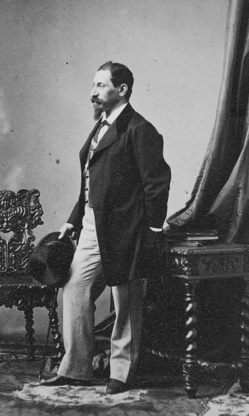 Photographical portrait of Jacobo Fitz-James Stuart, 15th Duke of Alba de Tormes.